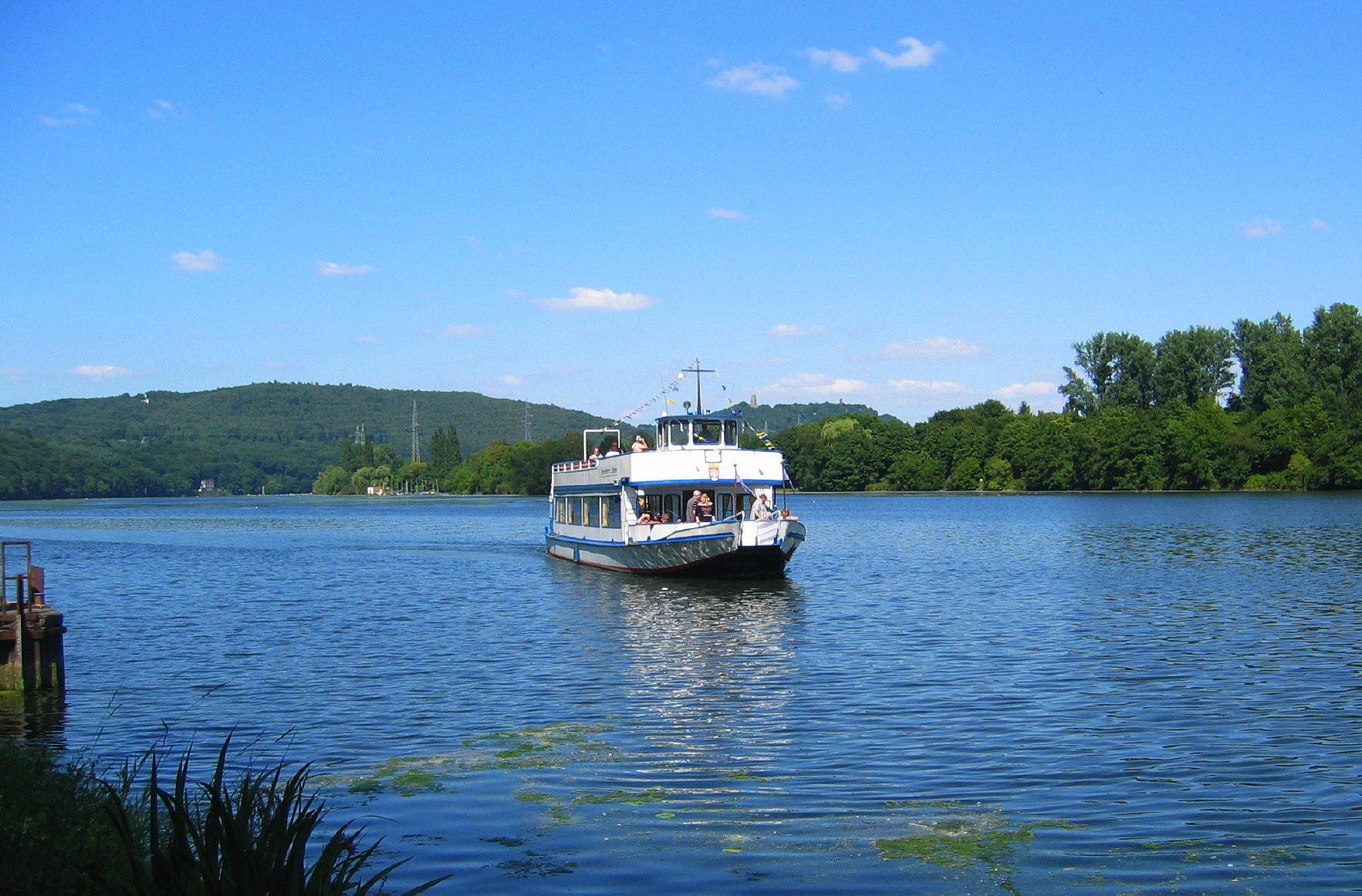 MS "Freiherr vom Stein" on the Hengsteysee, Herdecke, Germany.